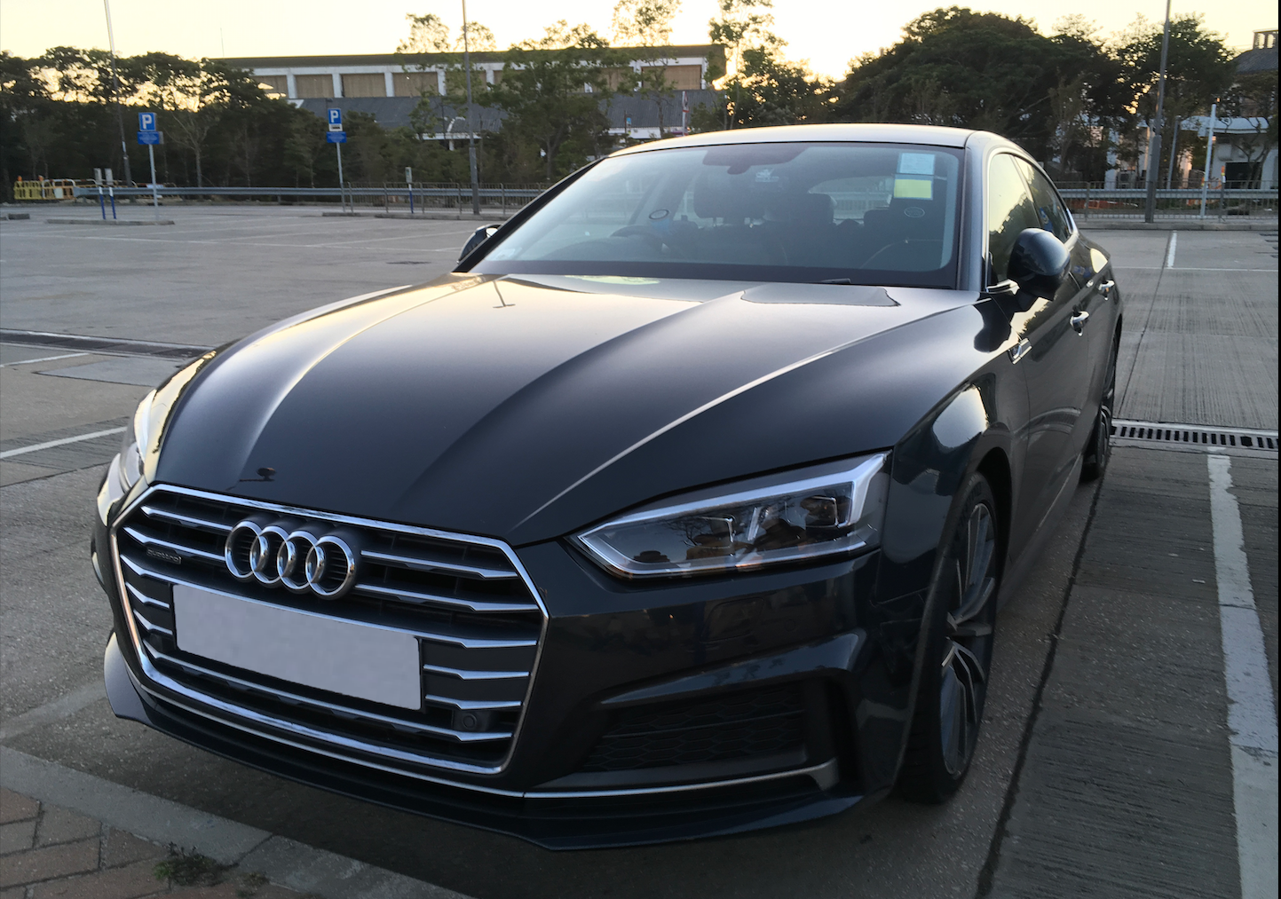 Audi A5 Sportback 45 TFSI Quattro